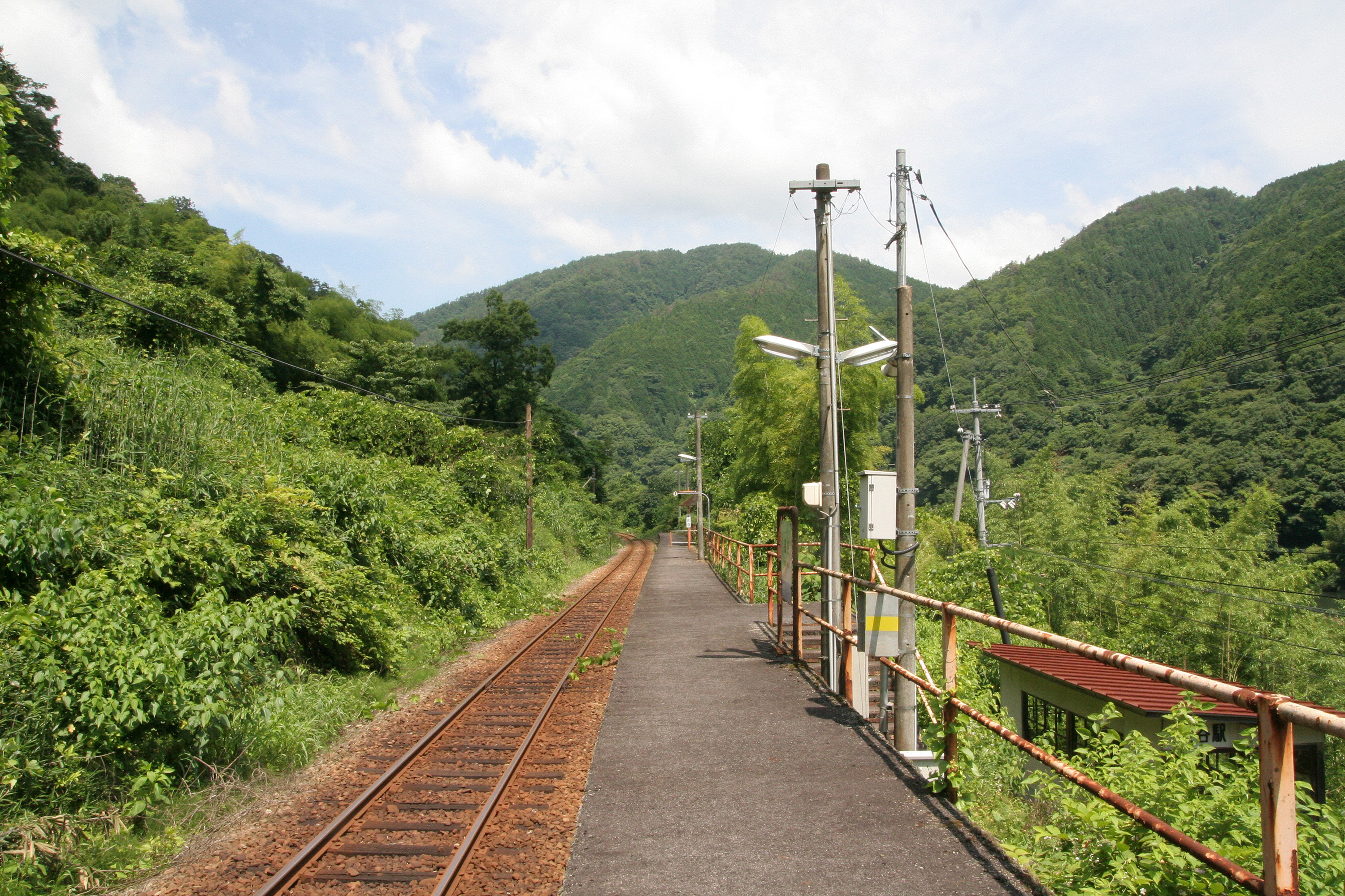 West Japan Railway Sankō Line nagatani Station enclosure